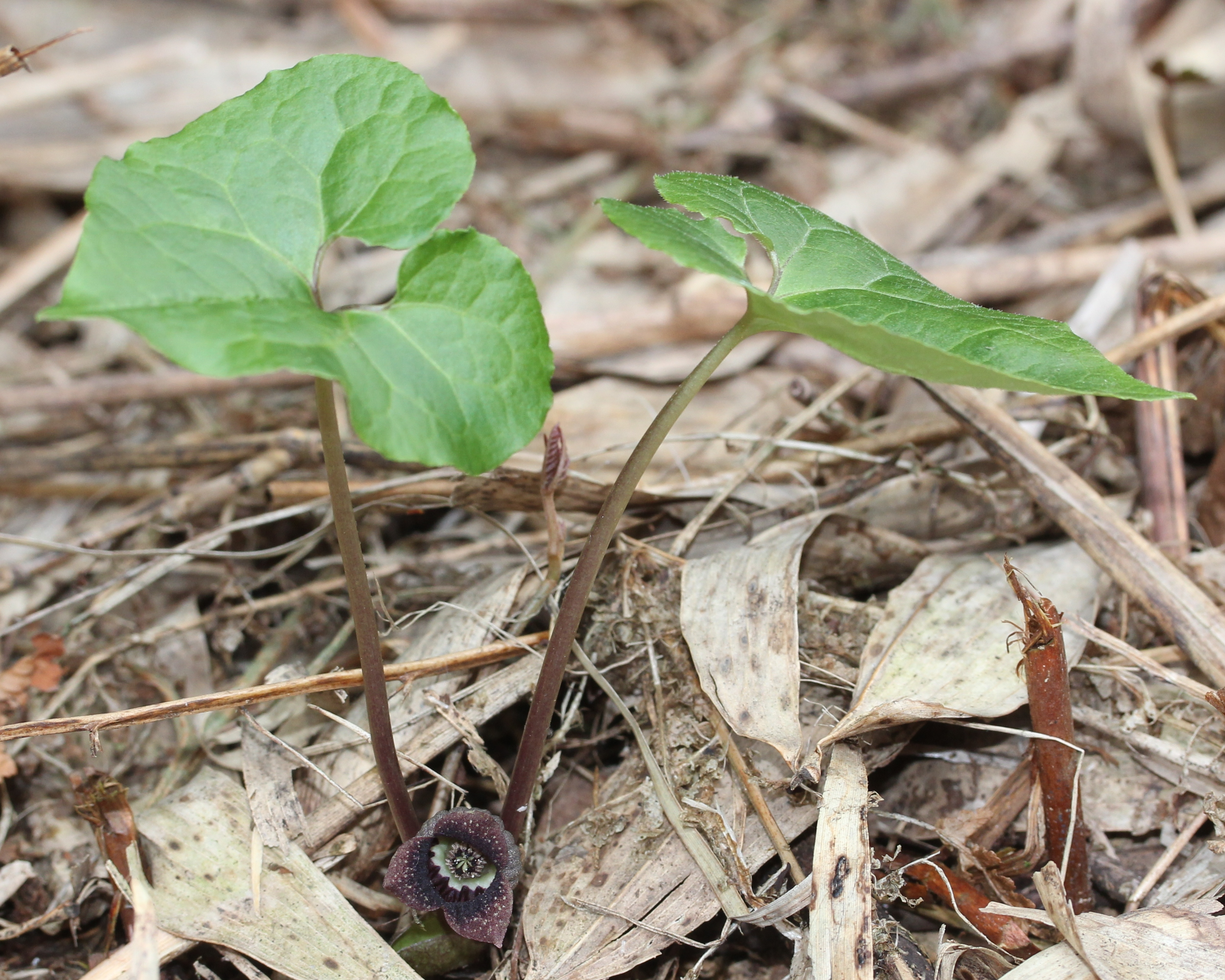 Asarum sieboldii in Mount Ibuki, Maibara, Shiga prefecture, Japan.